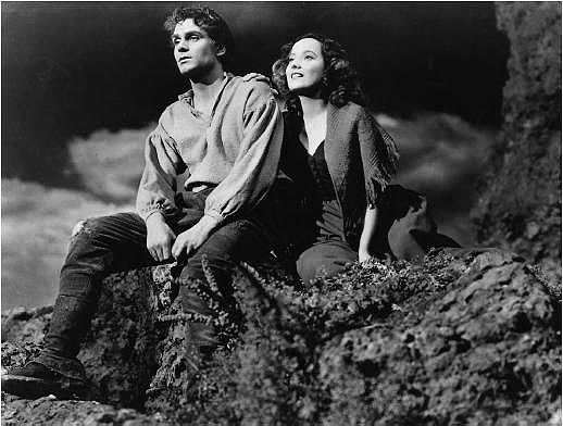 Photo of Sir Laurence Olivier and Merle Oberon from the 1939 film Wuthering Heights.